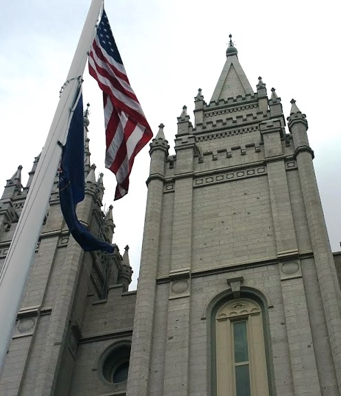 The U.S. and Utah state flags displayed in front of the iconic Salt Lake Temple of the LDS church.